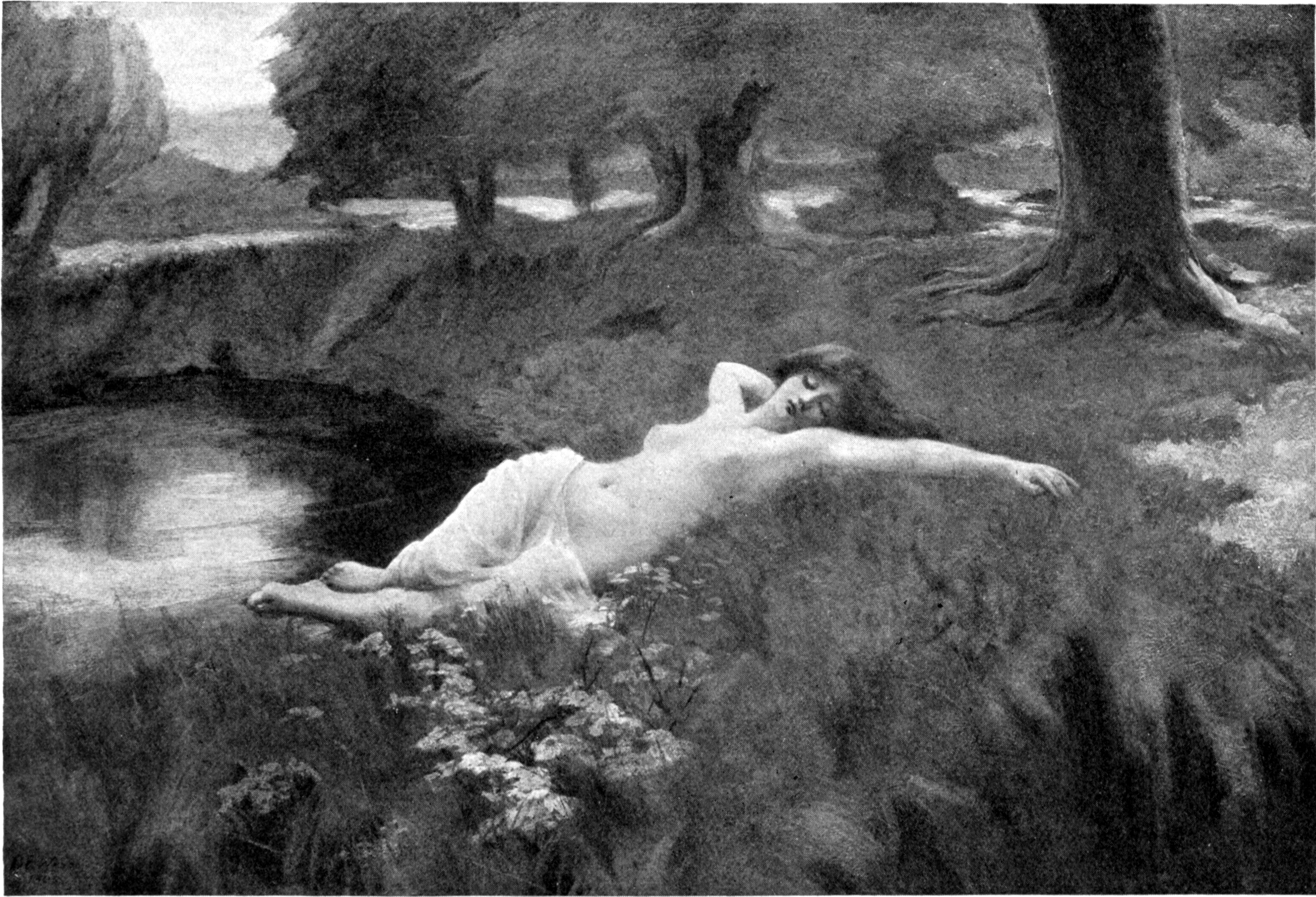 Idun (the title given to the work in the list of illustrations on page vii). A black-and-white reproduction of a watercolor painting, showing an idyllic scene with a woman sleeping by a pond in a forest.